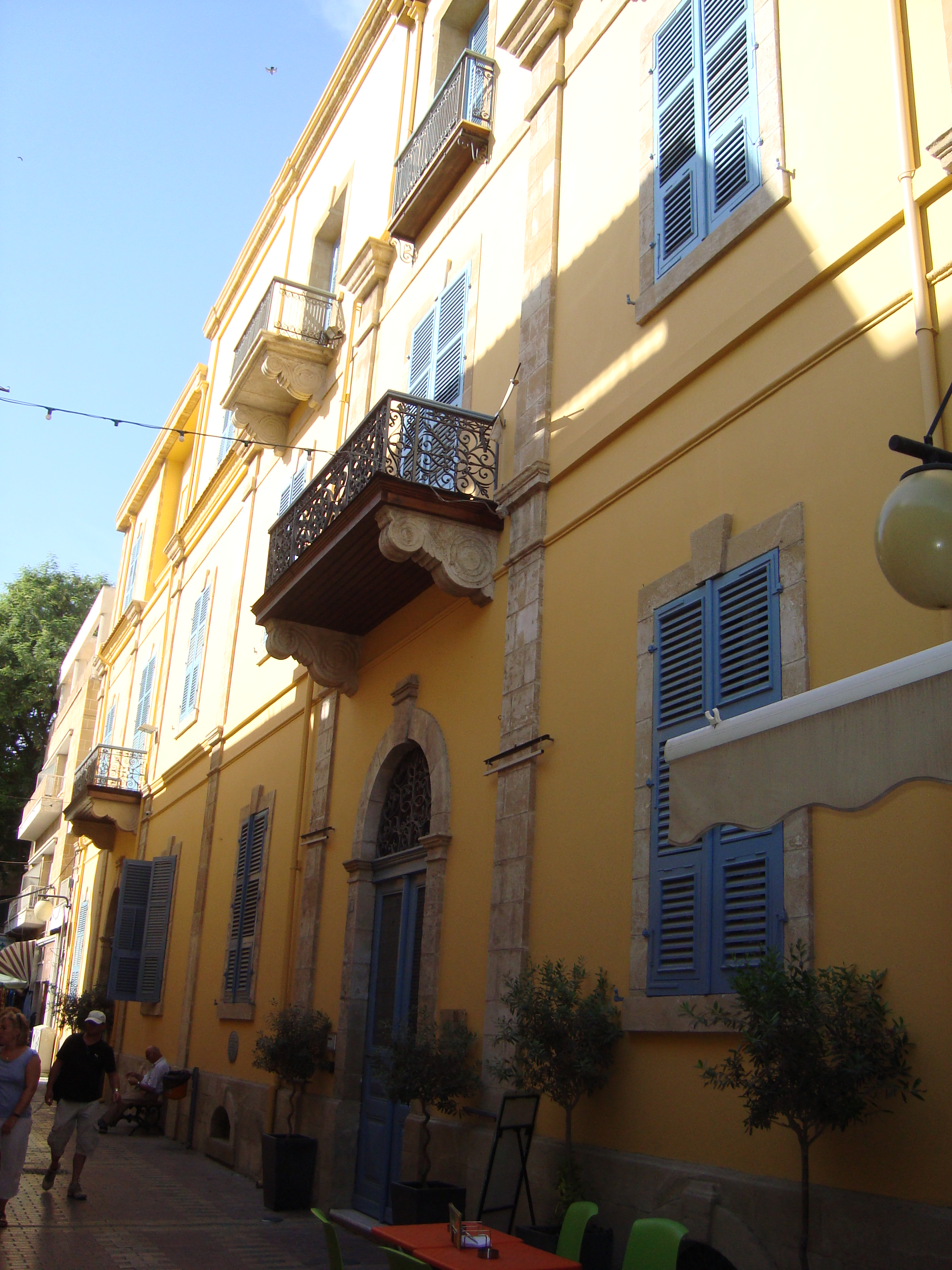 Leventio museum next to Ledra Street.